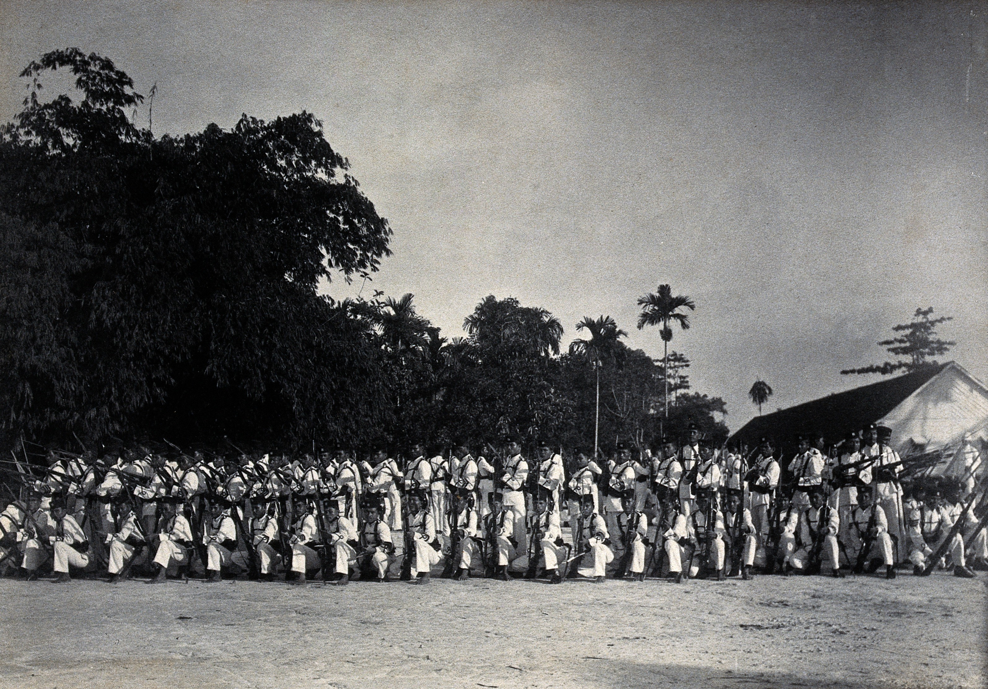 Sarawak: a line-up of armed Sarawak Rangers. Photograph. Iconographic Collections Keywords: Anthropology; Malaysia; Charles Hose; Ethnography; Borneo